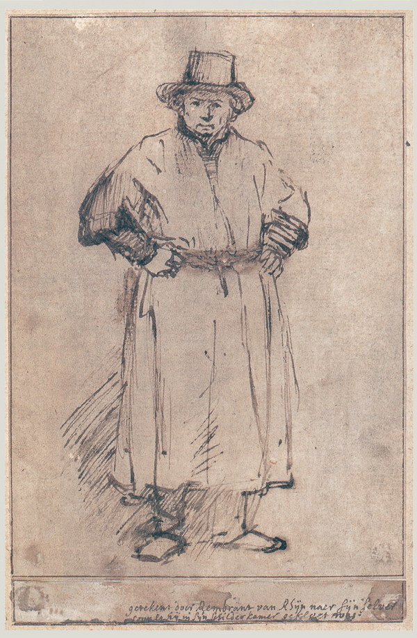 Self portrait in studio attire, full-length. 203 × 134 mm. Amsterdam, Museum het Rembrandthuis.